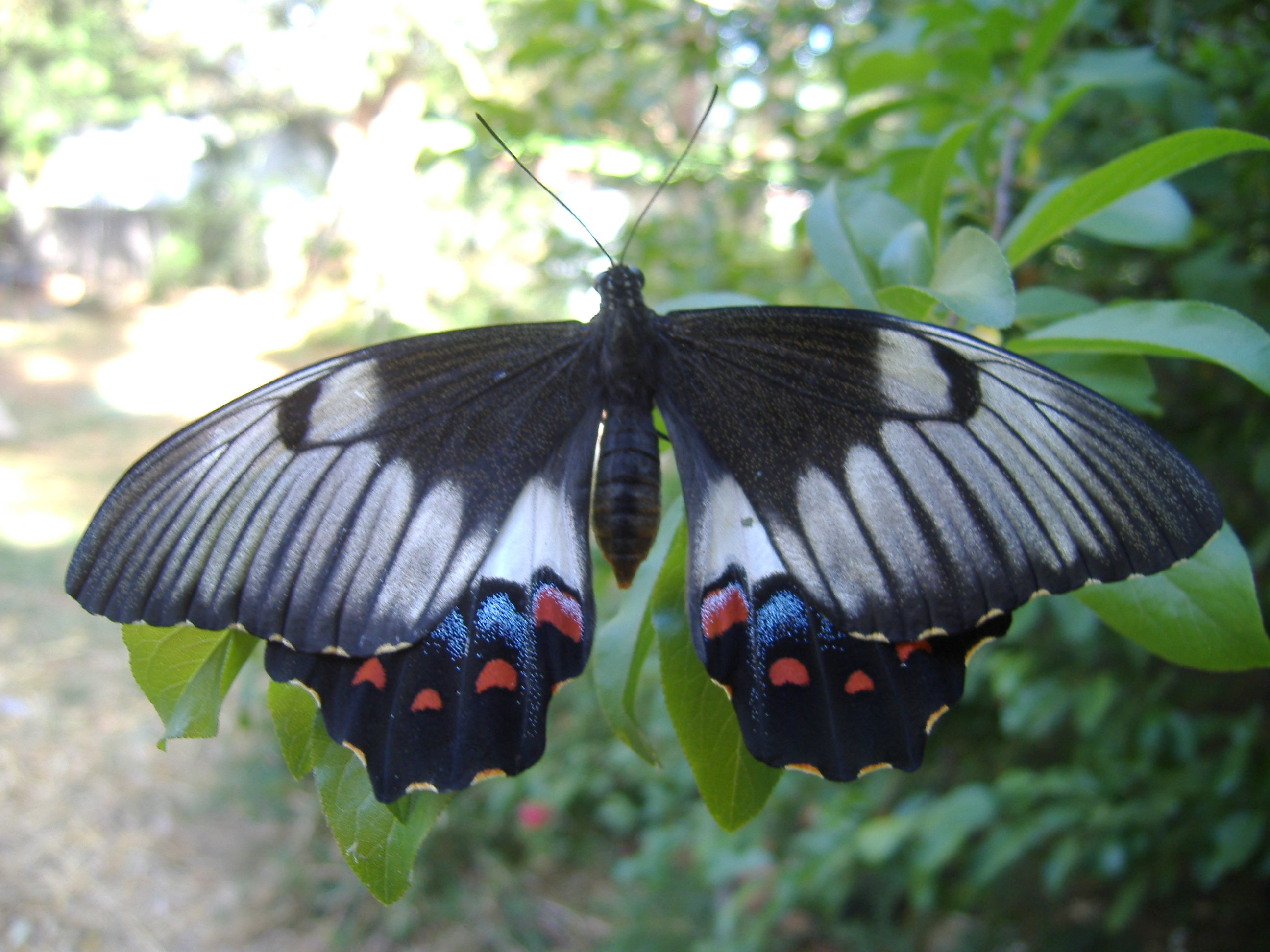 Photo of a female Orchard - Swallowtail Butterfly taken by Jillian Visser